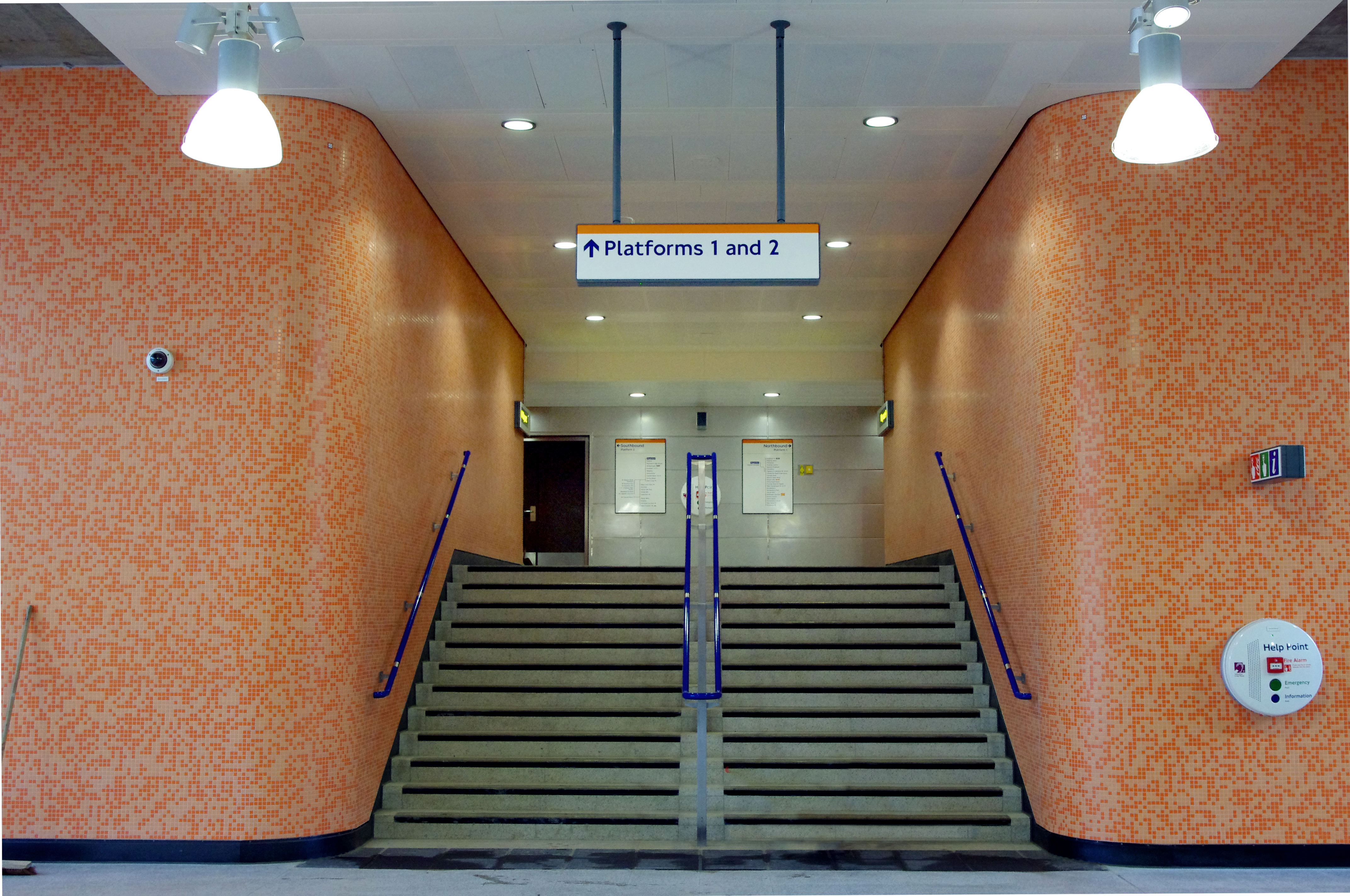 Orange coloured mosaic tiling